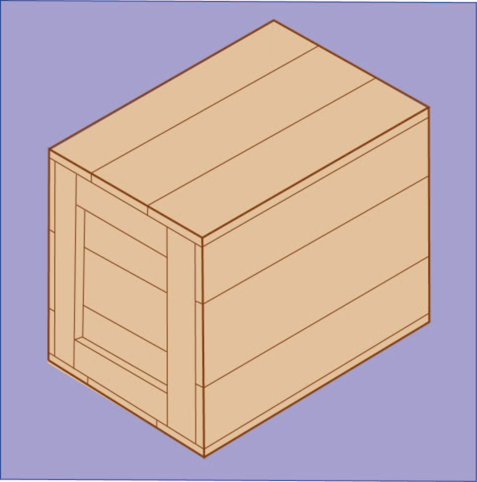 Wooden box